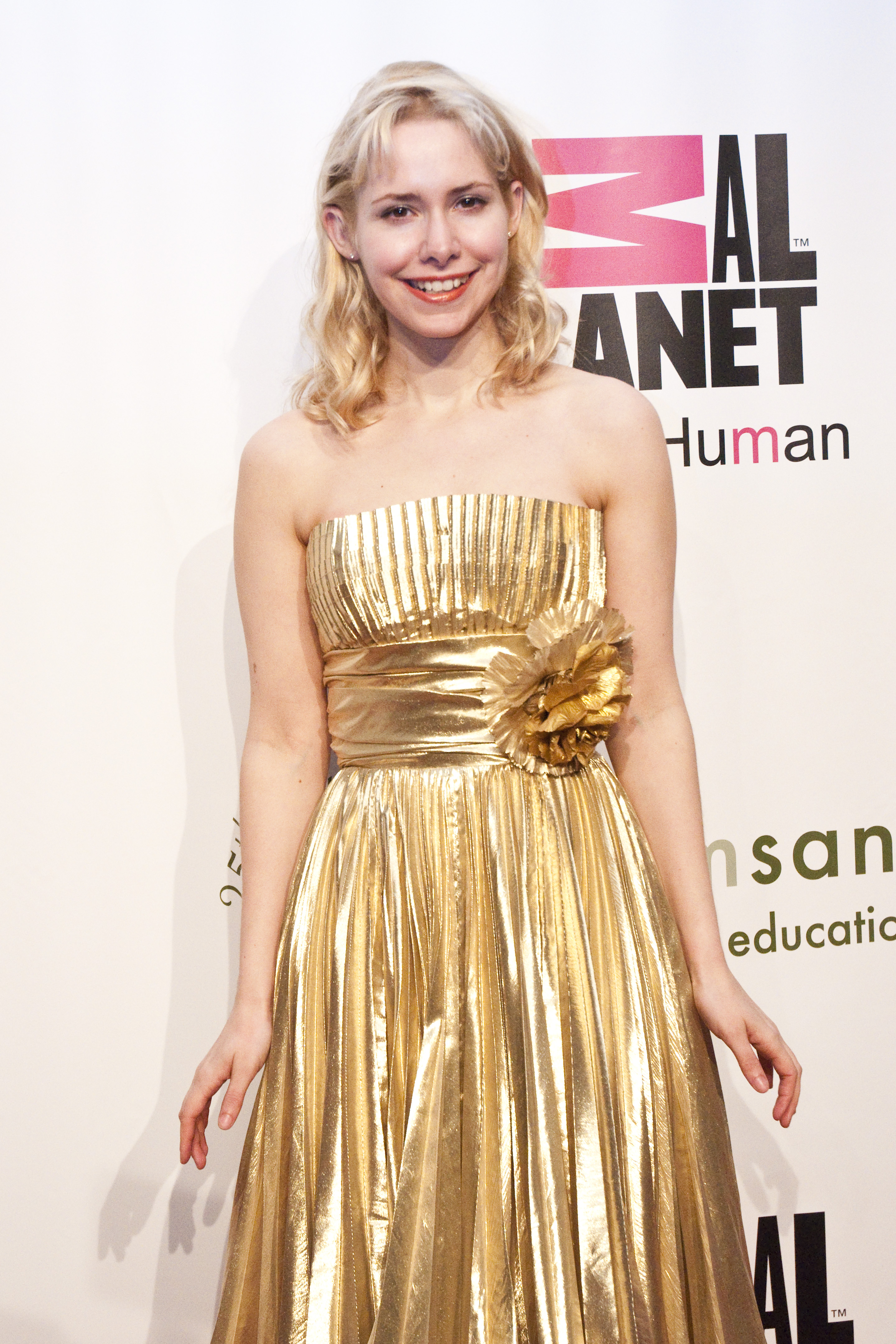 Nellie McKay at the Farm Sanctuary 25th Anniversary Gala in New York City.